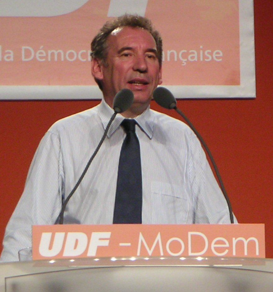 François Bayrou.